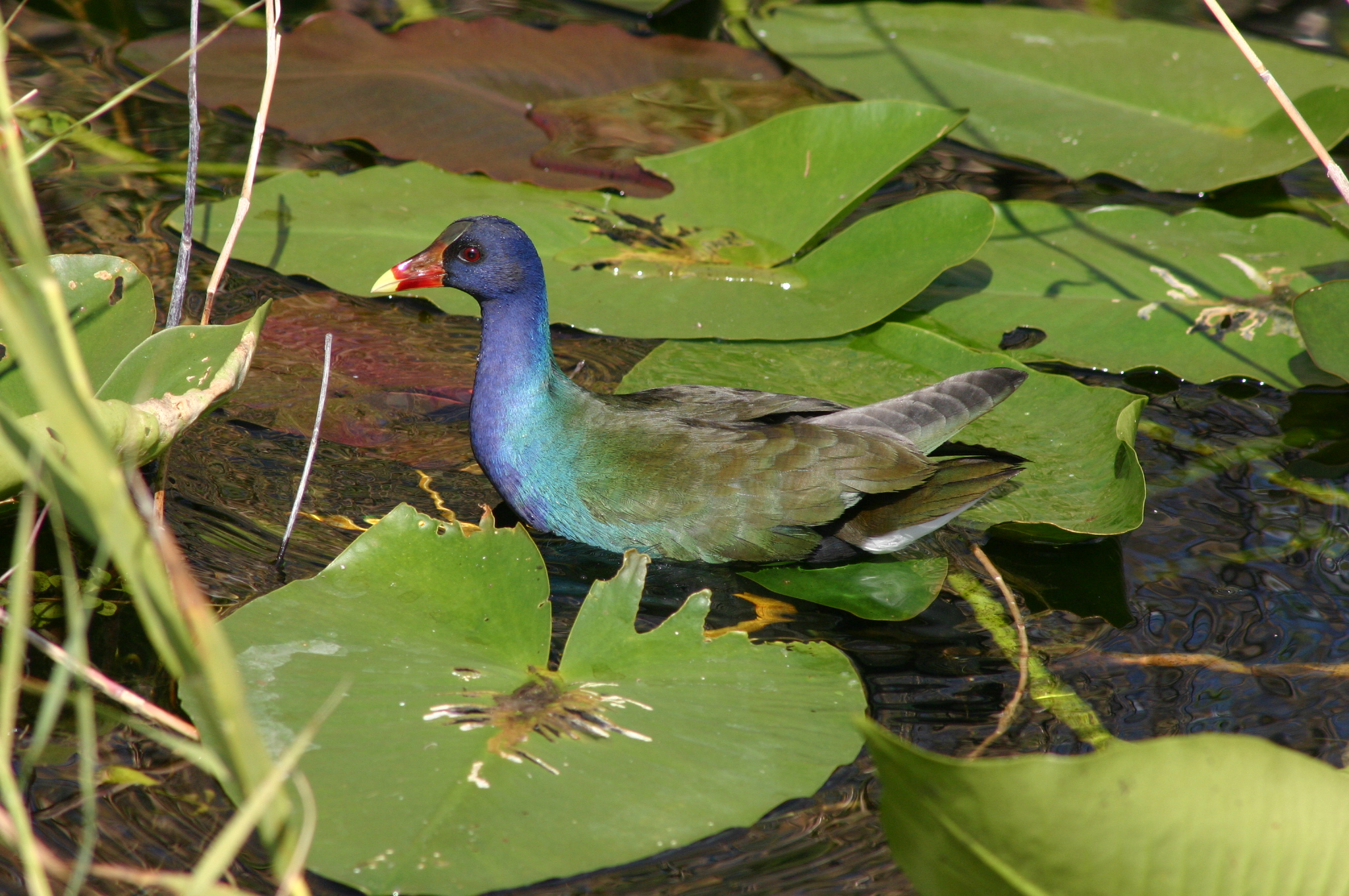 American Purple Gallinule (Porphyrio martinica) in water